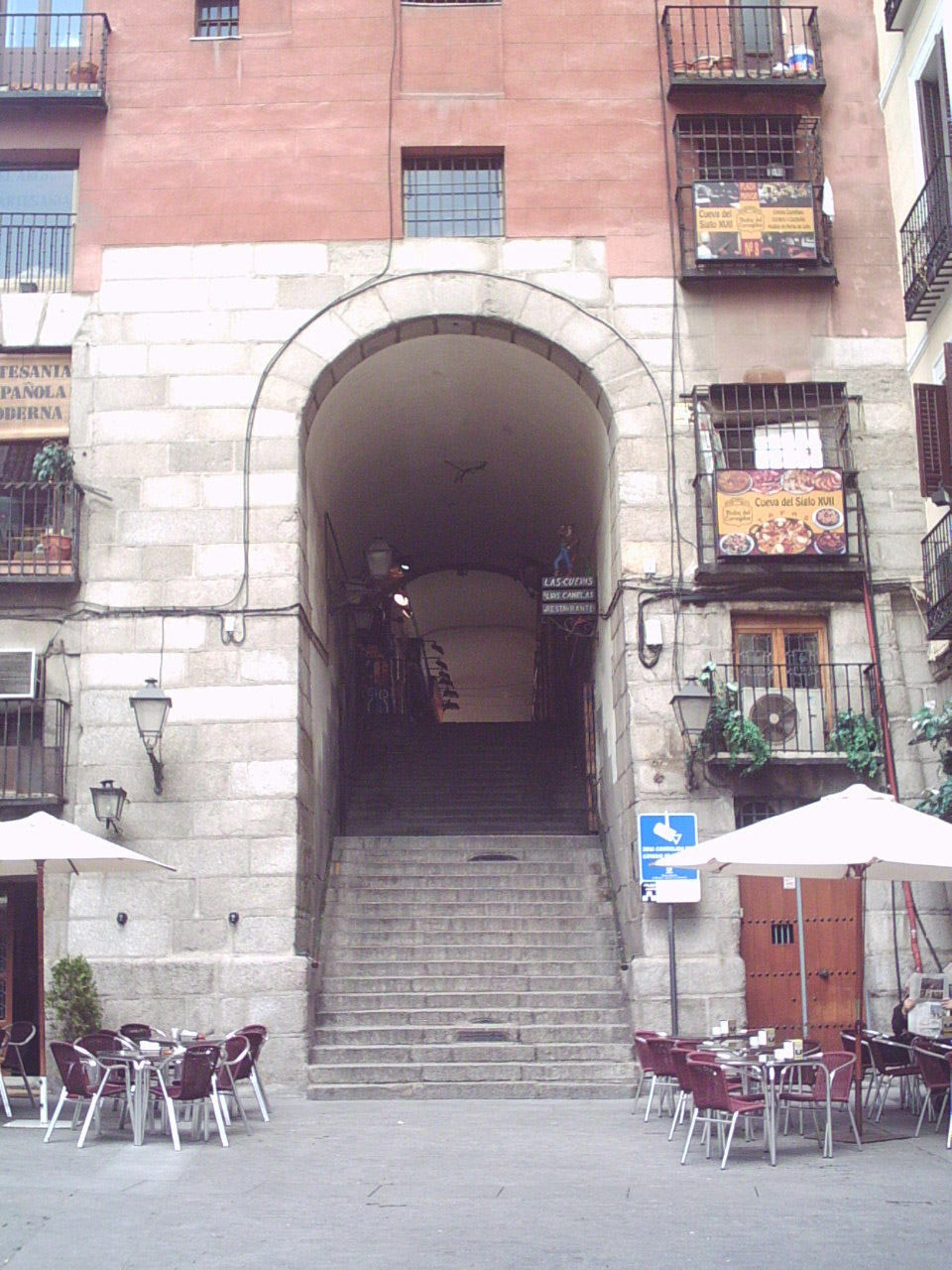 Arco de Cuchilleros (archway of Cuchilleros street) in Madrid (Spain). Projected in 1790 by architect Juan de Villanueva (1739–1811) as an entrance to the Plaza Mayor (square).